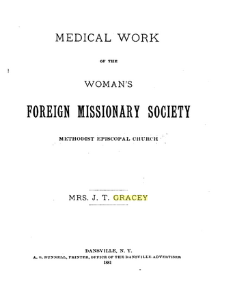 Medical Work of the Woman's Foreign Missionary Society: Methodist Episcopal ... by Annie Ryder Gracey